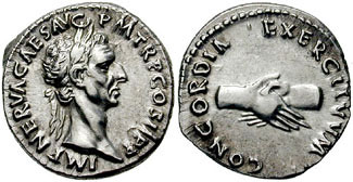 NERVA. 96-98 AD. AR Denarius (18mm, 3.57 gm). Struck 96 AD. IMP NERVA CAES AVG P M TR P COS II P P, laureate head right CONCORDIA EXERCITVVM, clasped hands. RIC II 2; RSC 16.